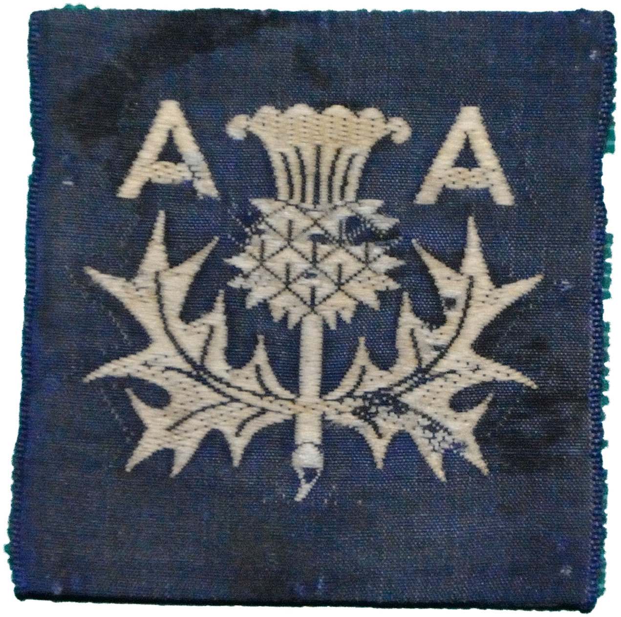 Formation sign for the 3rd Anti-Aircraft Division. This formation defended and was formed from units raised in Scotland. The photo is of a woven silk officers patch.